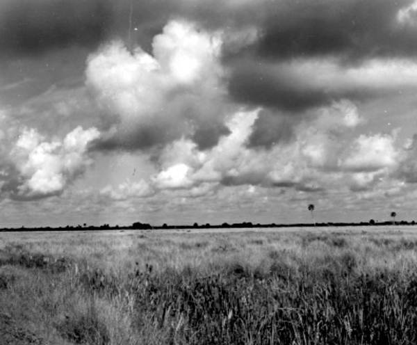 Portion of the 200,000 acre Orlando Livestock Company Ranch - Deer Park, Florida